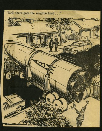 The New York Times satirized the Sentinel ABM system by showing one of the missiles being backed up into a suburban home's yard, and then comparing it to the catchphrase of the ongoing controversy over racial segregation in housing.